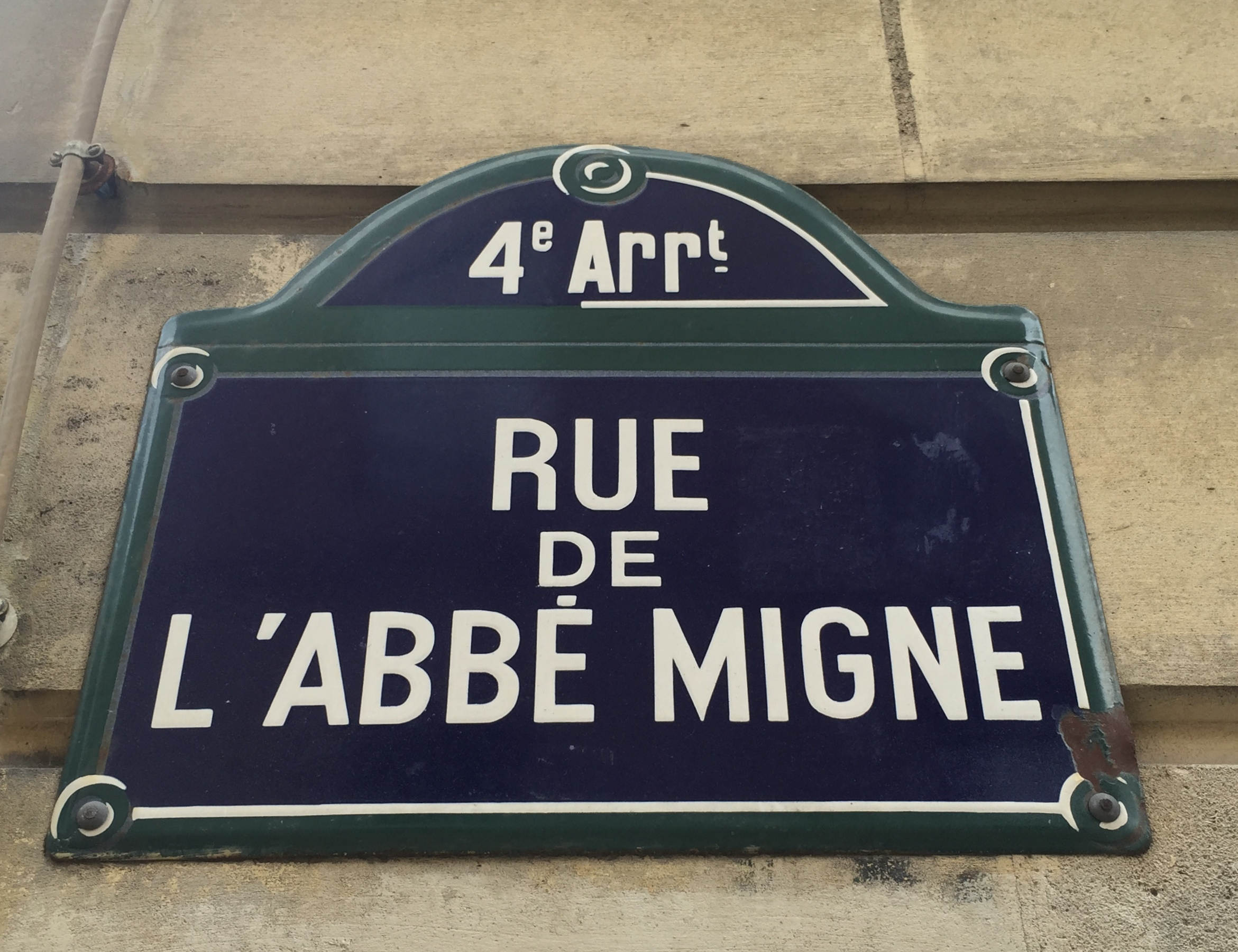 This photograph was taken with an iPhone 6